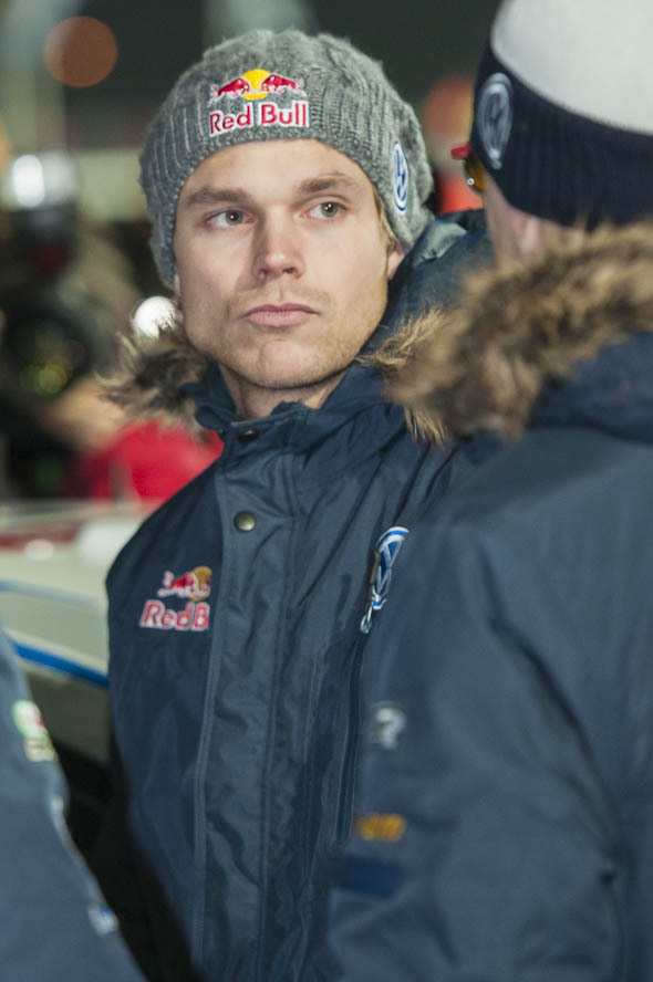 Rally Sweden 2014 Andreas Mikkelsen,Motorsport,Rally,Rally Sweden,Rallye,Rallye Schweden